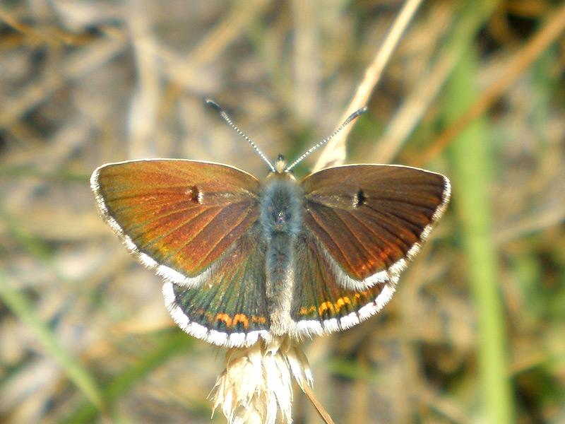 Near Canillo, Andorra. - August 17, 2007